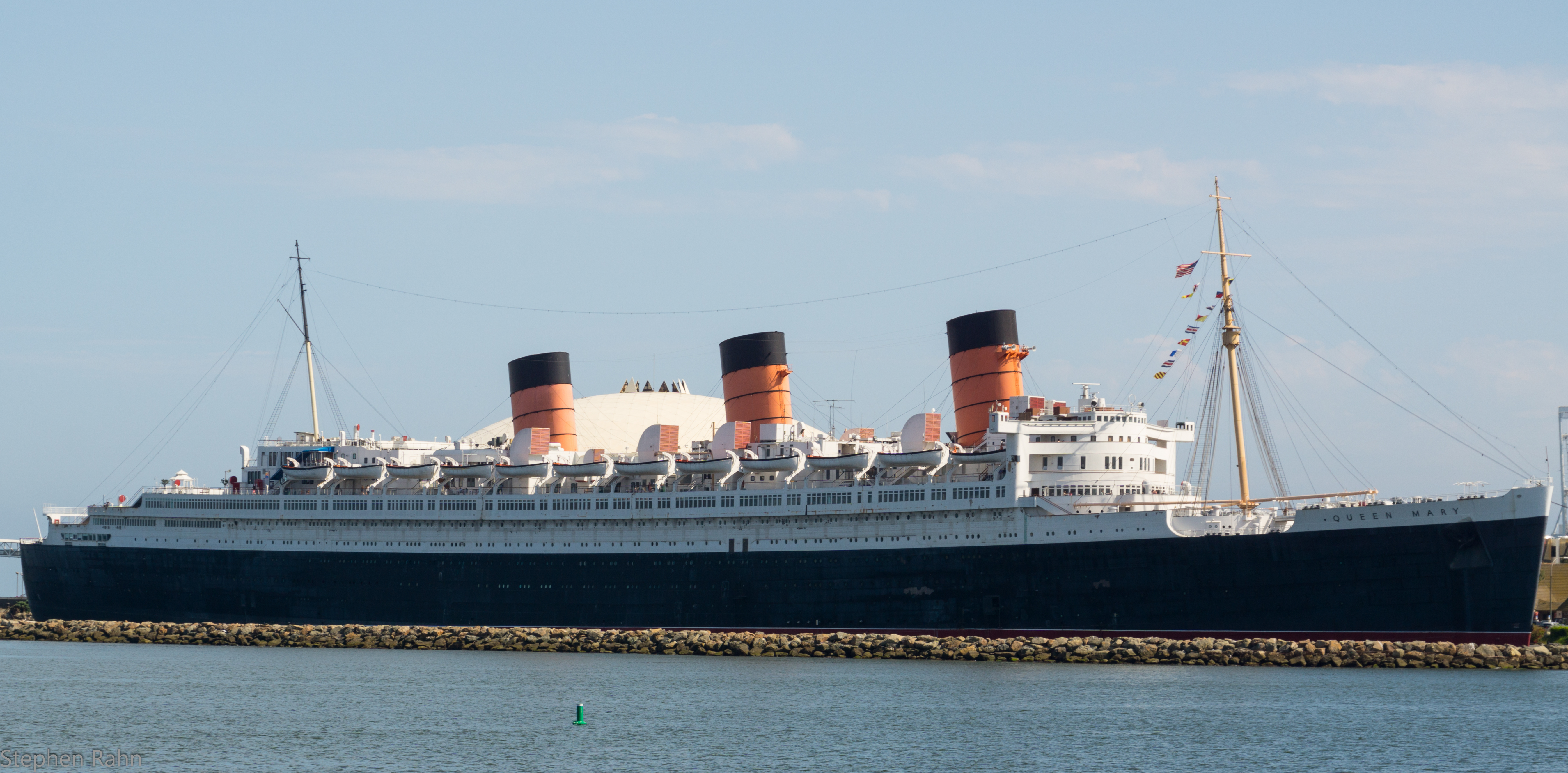 Queen Mary, Long Beach, California, USA